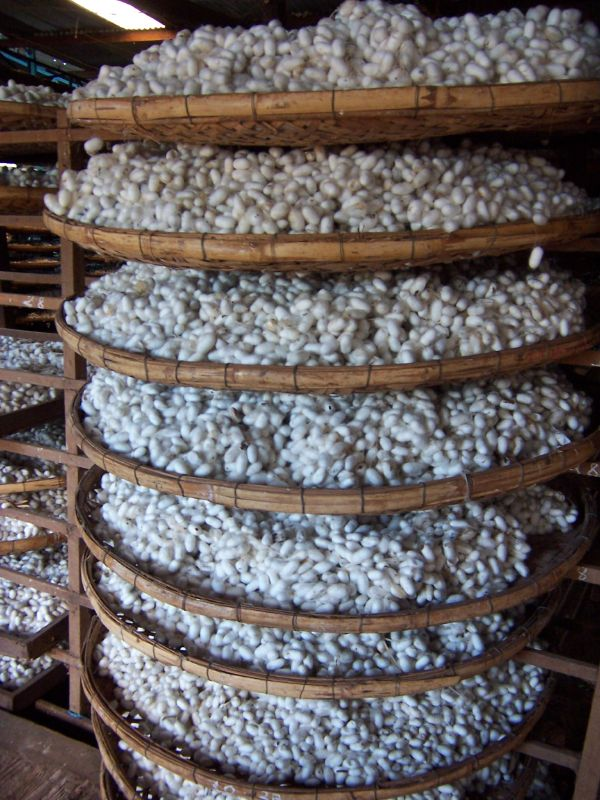 Silk worm cocoons